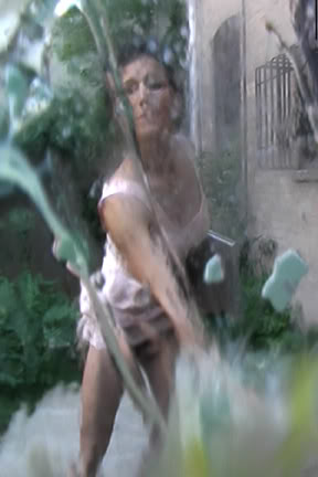 Video Still of Video Expectations by Heide Hatry